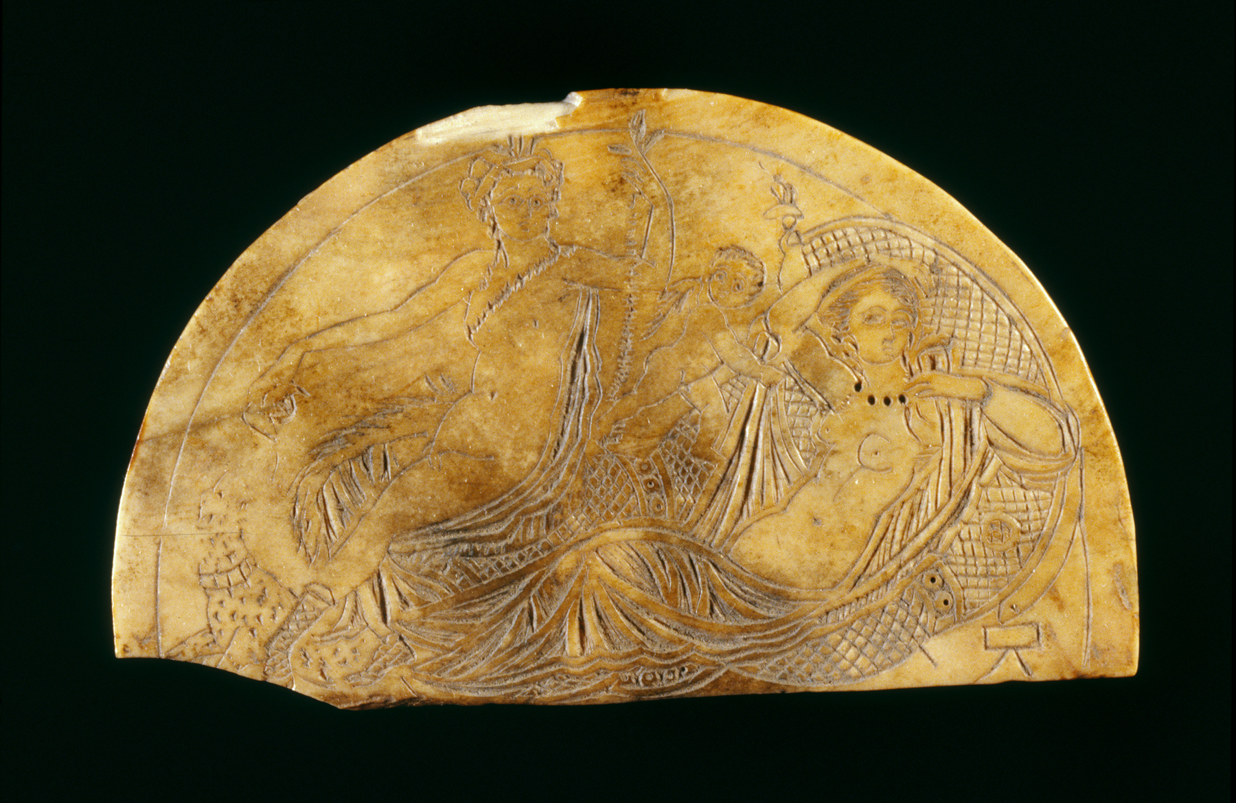 Illustrated here is the mythological story of Dionysos, the Greek god of wine, discovering the sleeping nymph, Ariadne, with Eros (Cupid) alluding to their future roles as lovers. In Egypt, Dionysos was also considering a god of immortality, as suggested by his awakening or "bringing to life" of Ariadne. This half-moon plaque may have been used on a jewelry box or as furniture decoration for a wooden couch or bench.